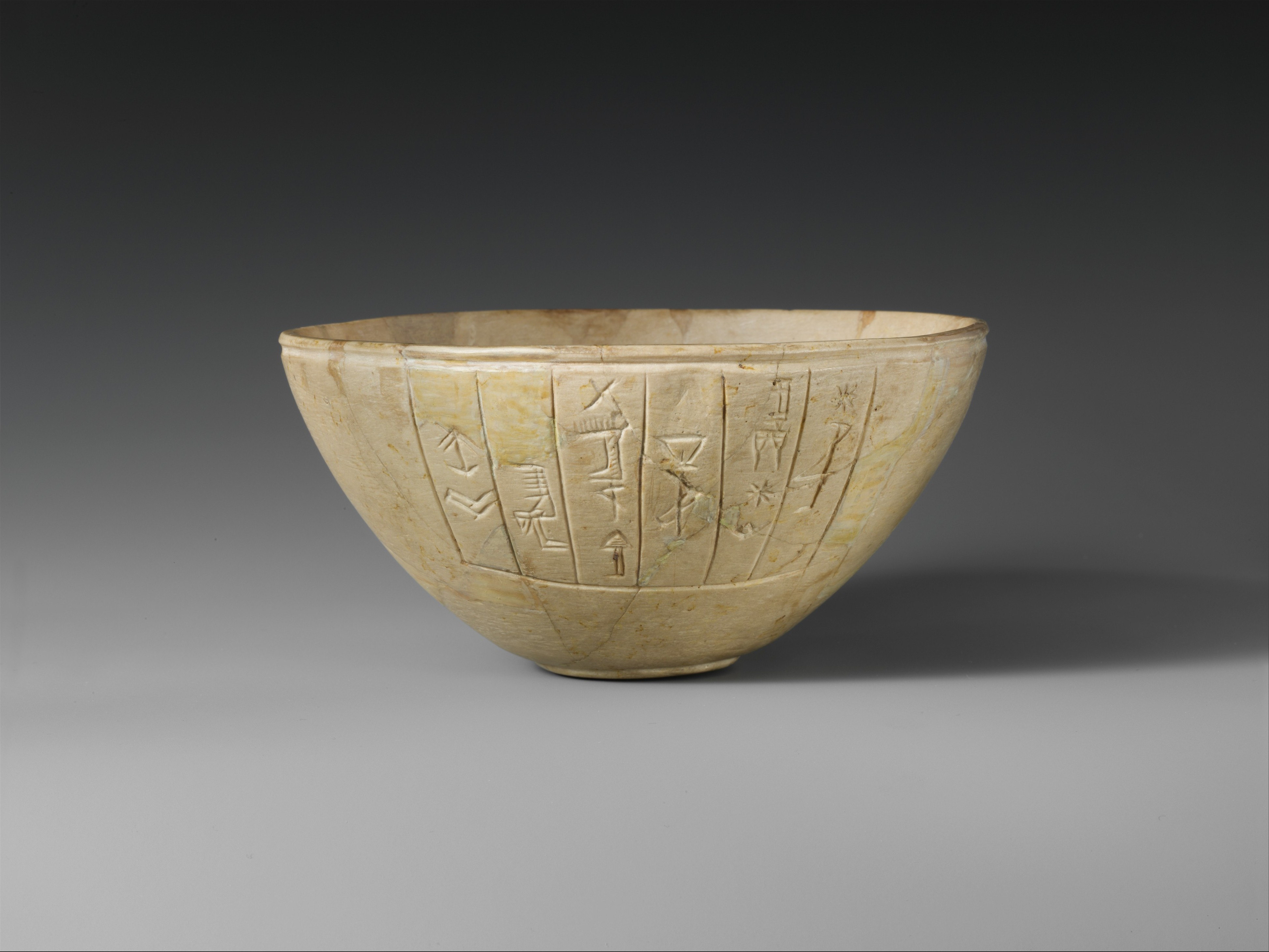 Votive Bowl in Stone (Calcite), found in the Sumerian City of Nippur, in the Inanna Temple, Level VII (ED IIIA). Vowed to Inanna by He-Utu. Translated in : A. Goetze, "Early Dynastic Dedication Inscriptions from Nippur", in Journal of Cuneiform Studies 23, 1970, p. 41. Cuneiform inscription, lacunary : "To Inanna, He-Utu, wife of Panukush (?), the (...), dedicated (this)."